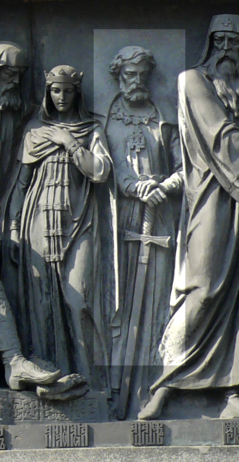 Aleksey Adashev on the Monument «Millennium of Russia» in Veliky Novgorod